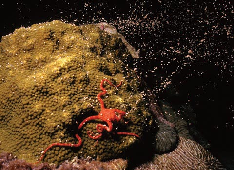 Stony coralspawning